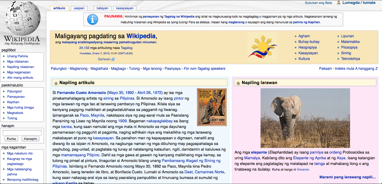 Screenshot of the Tagalog Wikipedia as it appeared in 2010 Tagalog: Isang kuha ng unang pahina ng Wikipediang Tagalog sa anyo nito noong 2010